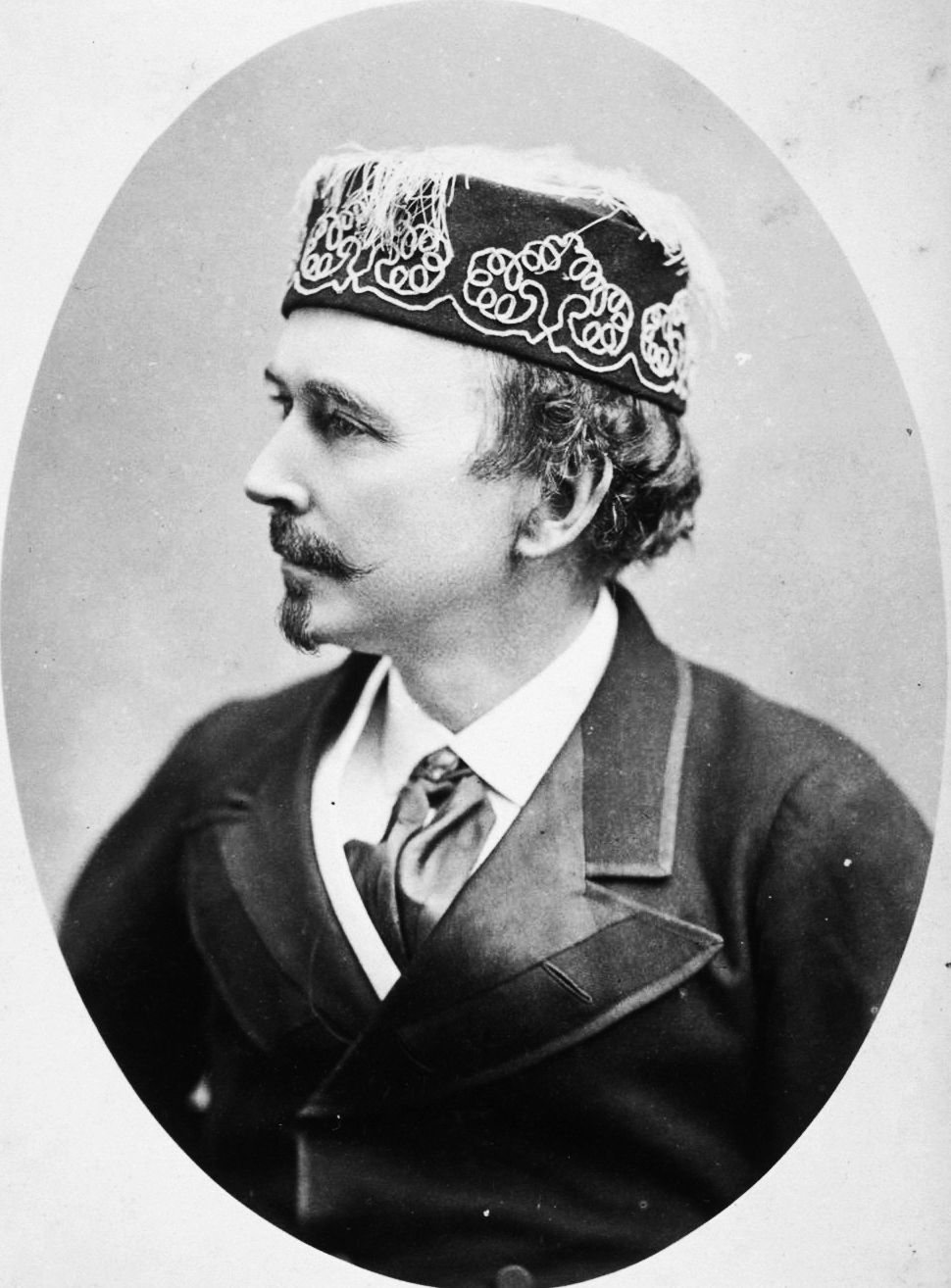 Dion Boucicault (1822-1890), actor and playwright, in 1878